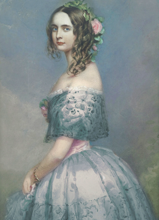 Princess Alexandra of Bavaria (1818-1875)